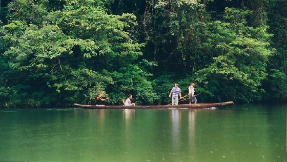 La Mosquitia — Honduras.